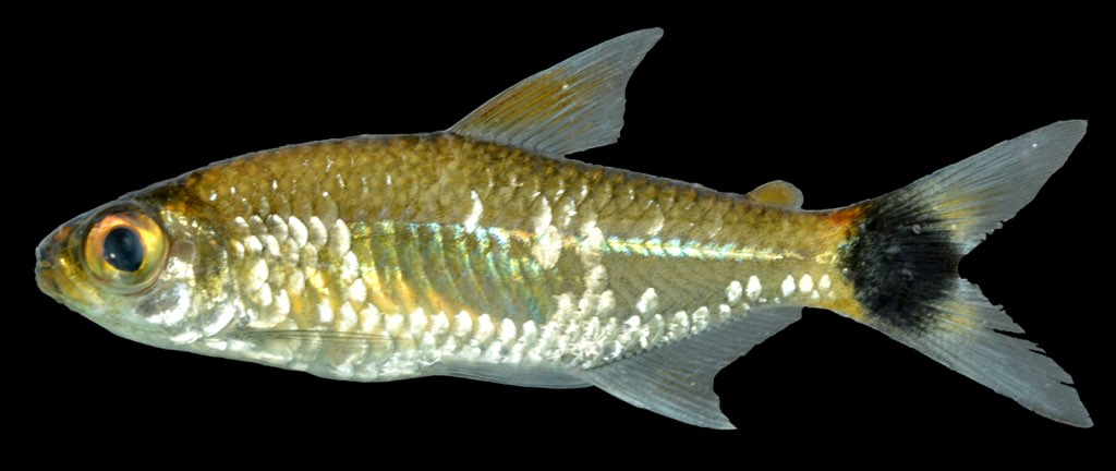 Moenkhausia ceros GUY14-28 47mm